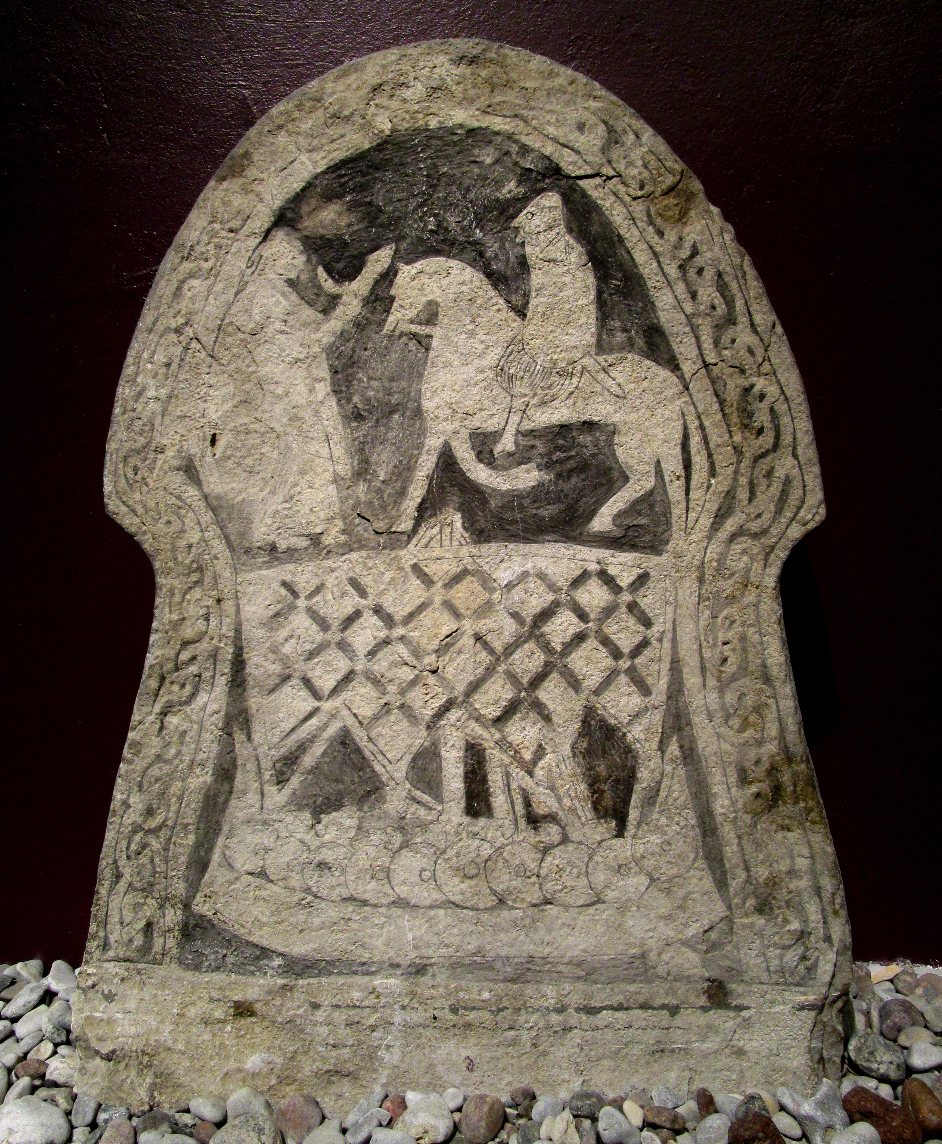 Picture stone from Broa in Halla socken on Gotland, Sweden, 8th-9th Century. Showing a woman offering a drink to a viking, perhaps welcoming him to Valhalla, above a viking ship under full sail. The stone is kept at the Gotland Museum, Fornsalen, Visby, Gotland.